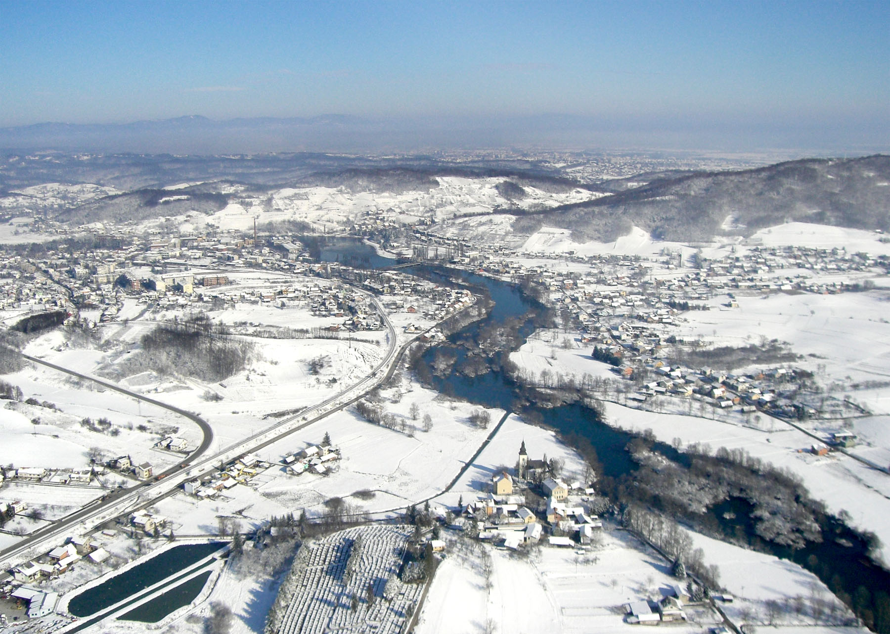 Duga Resa and surrounding area near city of Karlovac in central Croatia.